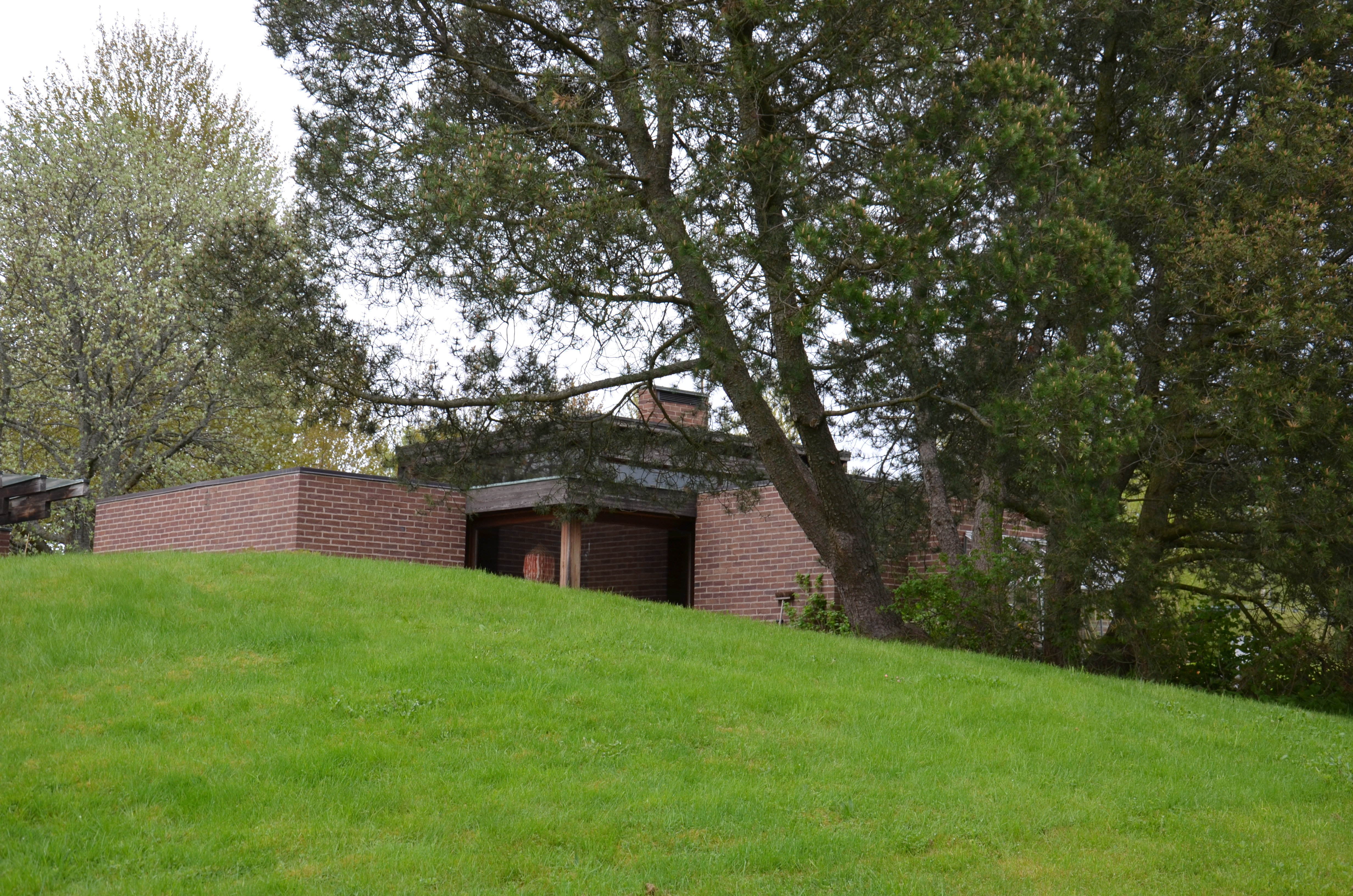 NU 64 house, Nordengatan 15, Villa Norrköping in Norrköping, drafted by Norwegian architect Sverre Fehn